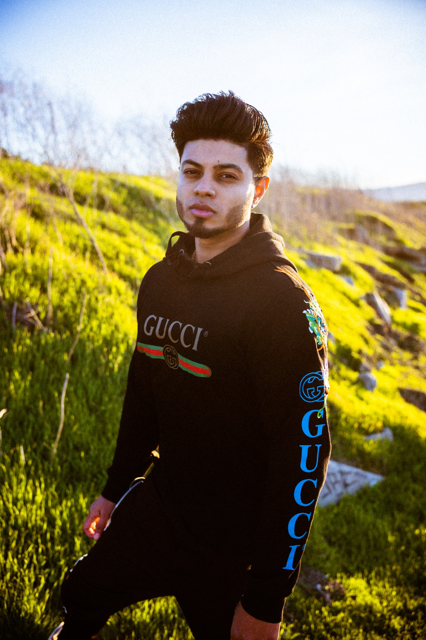 Shows music producer Sanjoy at a greenery area near lake